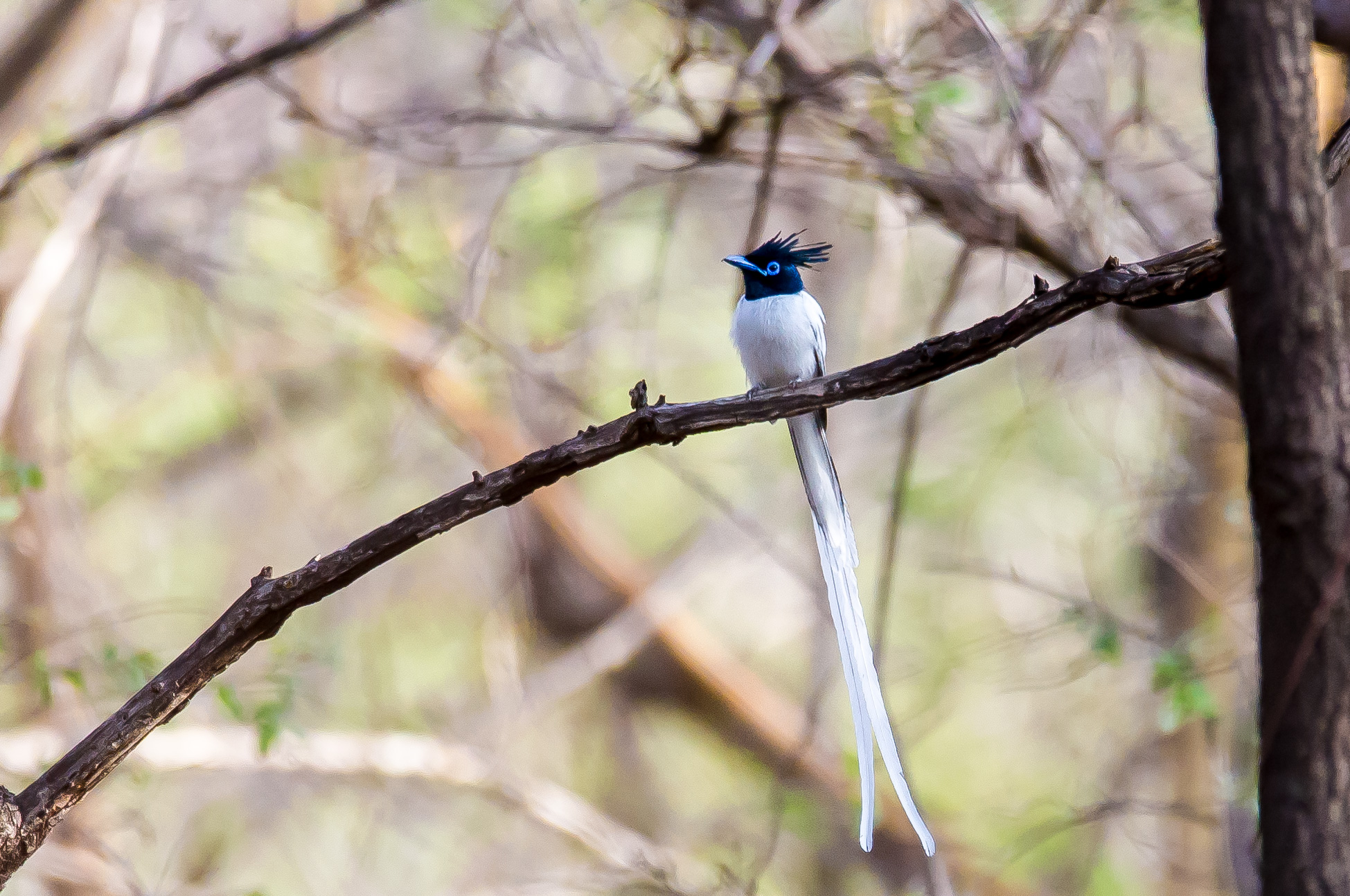 At Anantagiri Hills Forest, Telangana